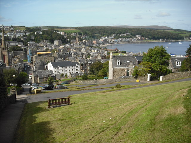 Serpentine: Rothesay Twisting road or steep steps give access to the top of the slope. With view over the town